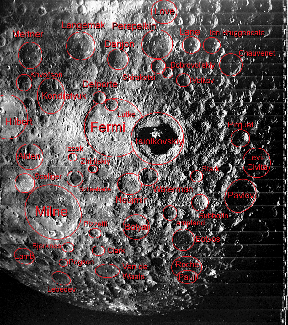 The far side of the moon with major craters delineated. Minor craters of Homer and Sappho, located to the southeast of Tsiolkovskiy, are not outlined on this picture.